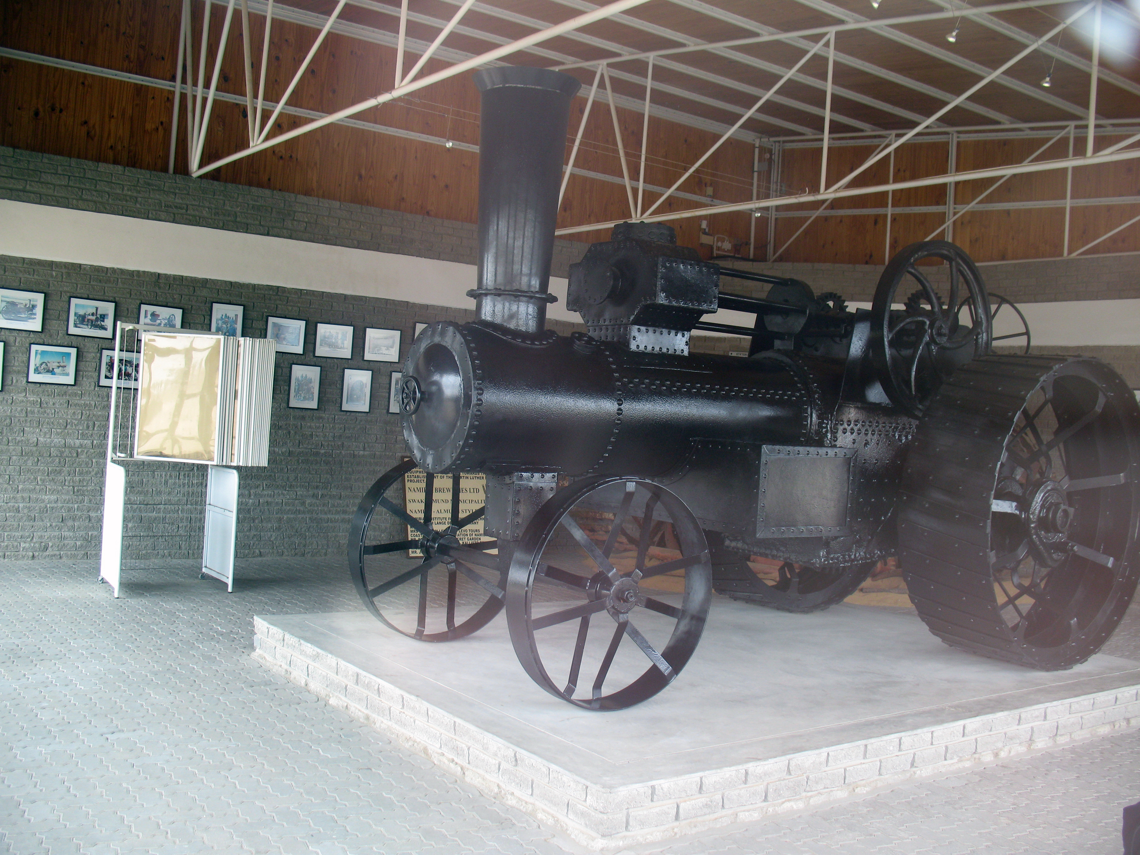 Steam locomotion Martin Luther, Namibia